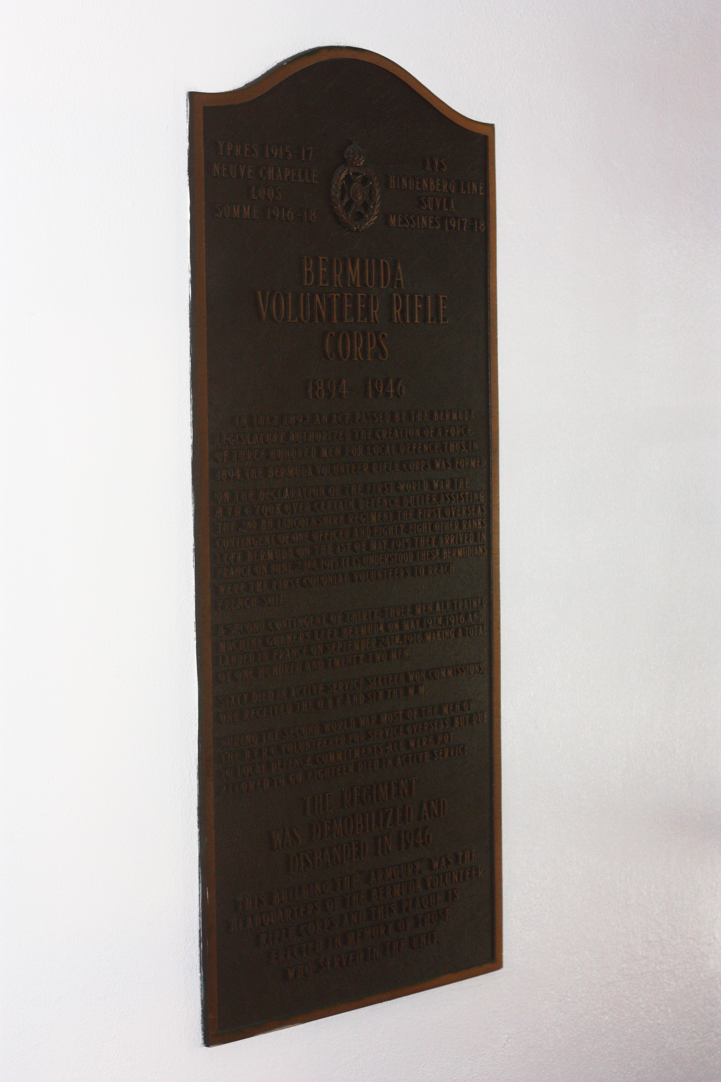 The plaque commemorating the Bermuda Volunteer Rifle Corps (BVRC), original occupants of the Armoury Building, located at 37 Reid Street, in the City of Hamilton, in Pembroke Parish, Bermuda. The BVRC, raised in 1894, was reduced to a skeleton staff in 1946, following the Second World War. It was brought up to strength again in 1951, and re-titled the Bermuda Rifles. Although it remained a part-time Territorial Army (TA) unit, conscription (which had previously only existed during the duration of the Second World War) was reintroduced to make up a shortfall of volunteers. It would be amalgamated with the Bermuda Militia Artillery to form the Bermuda Regiment in 1965. The Armoury Building, and the other drill halls of the BVRC were removed from use. The withdrawal of the last Regular Army component of the Bermuda Garrison in 1957, A Company of the First Battalion of the Duke of Cornwall's Light Infantry, left a great deal of vacant baselands, and the TA permanently occupied Warwick Camp formerly the rifle ranges and a field training area for utilisation of the entire garrison. The old Armoury Building currently houses a mixture of clothing boutiques, restaurants, and office space. The Plaque, fixed to the wall inside the main door, is the only obvious indication of its original purpose.